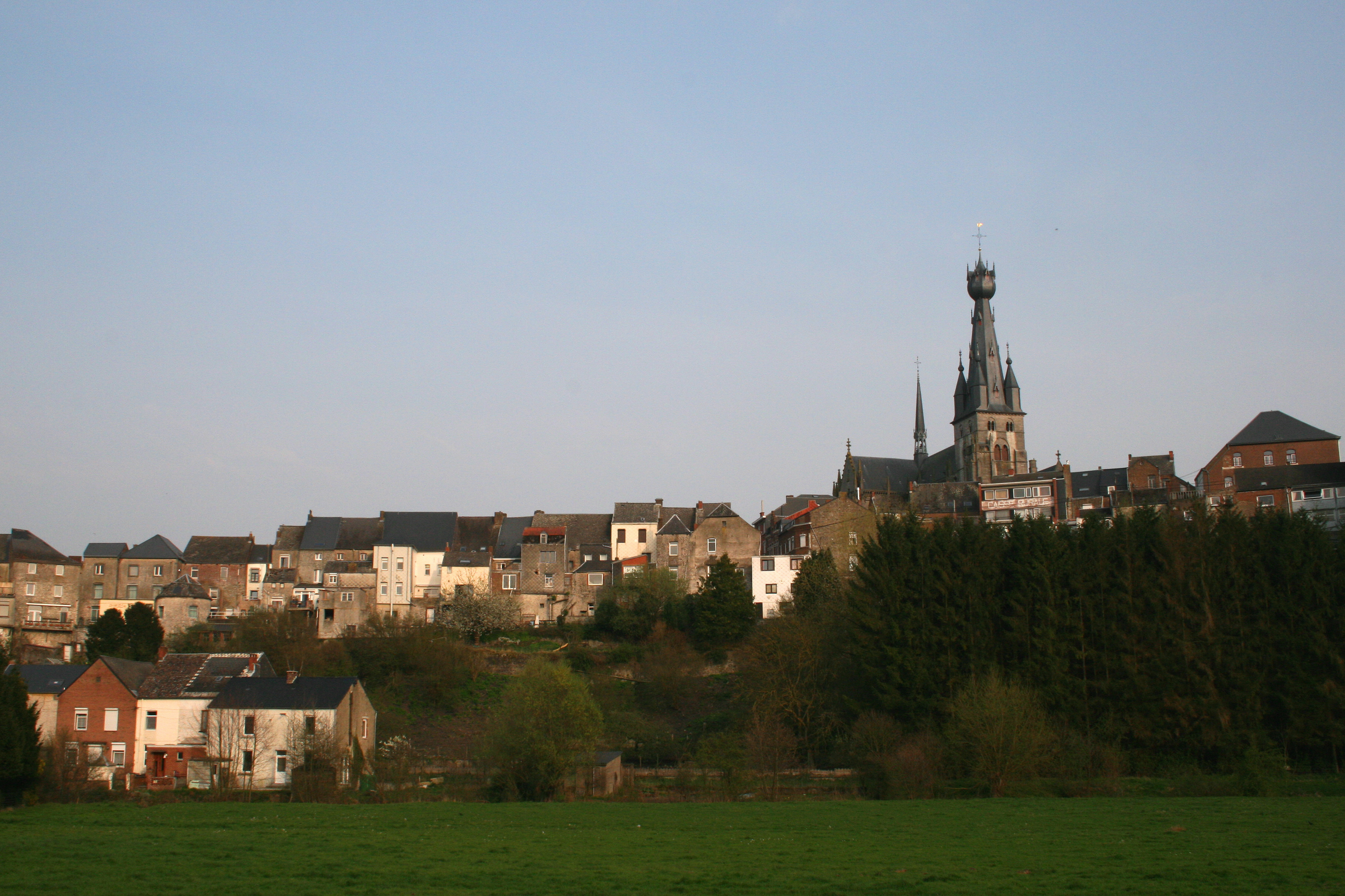 Walcourt (Belgium), the old city and the Basilica St Maternus (XVth century).